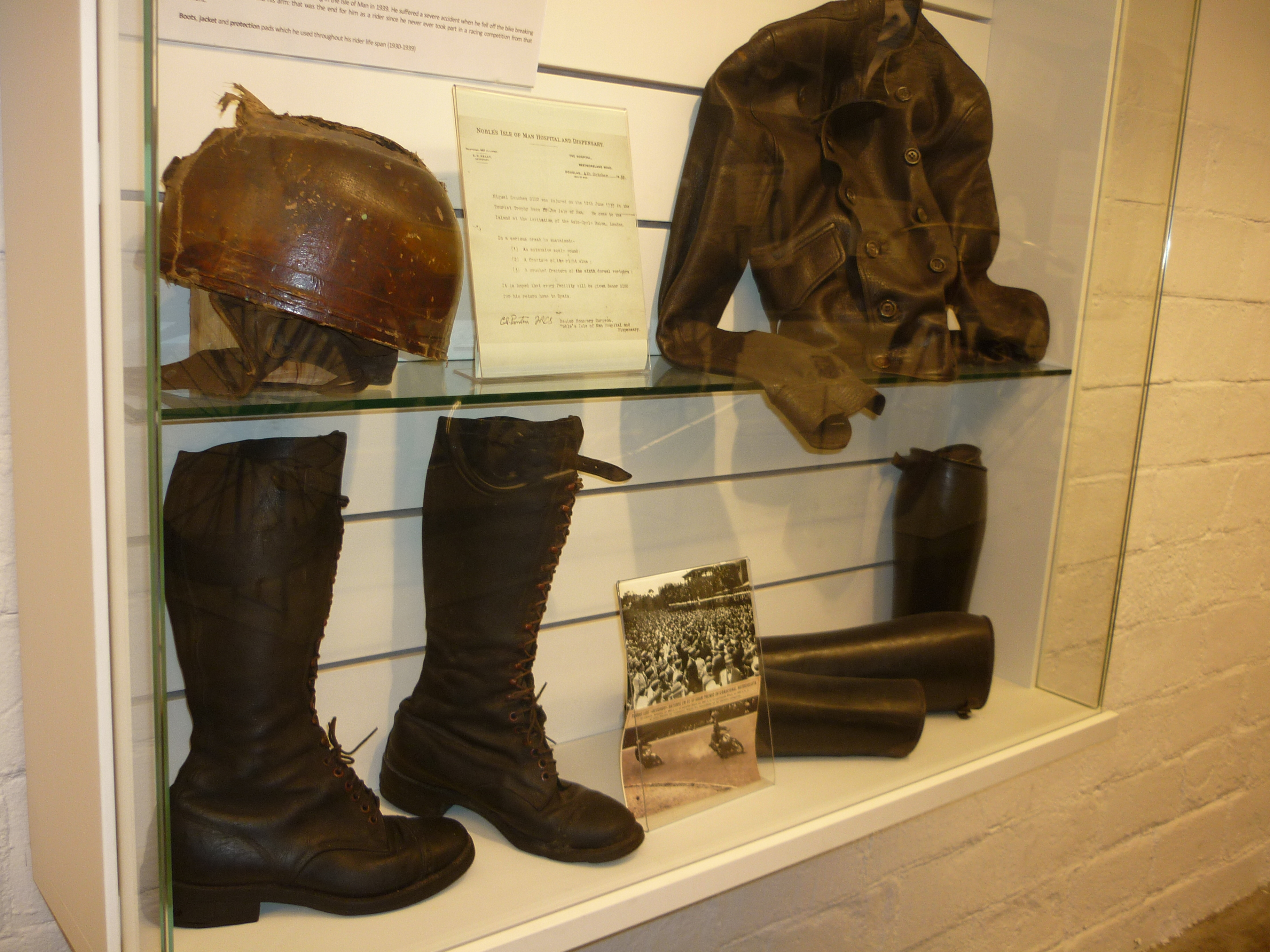 The racing equipment that wore Miquel Simó between 1930 and 1939